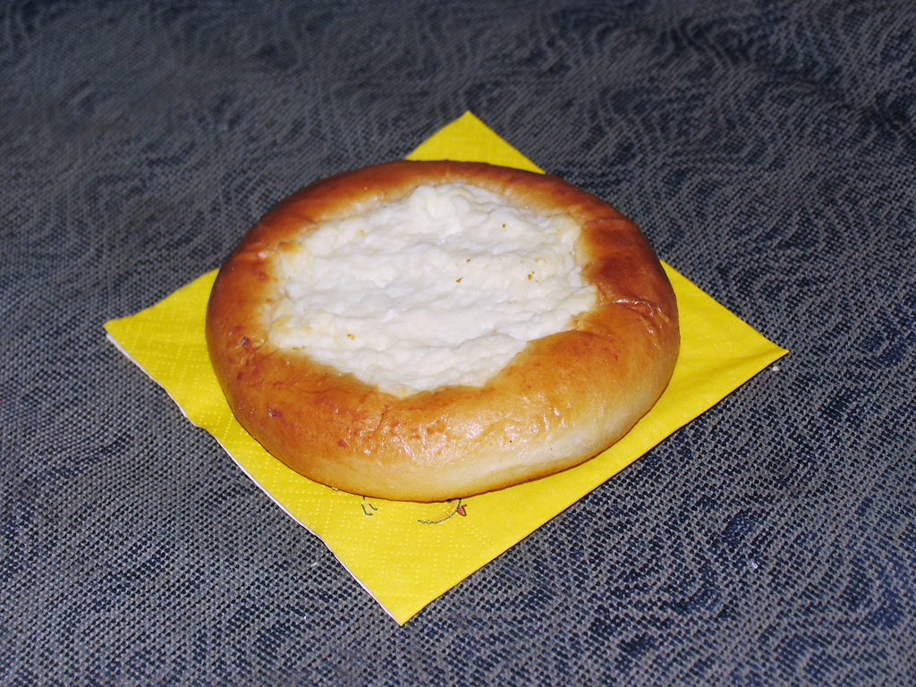 Vatrushka — russian pie with tvorog (russian cottage cheese)